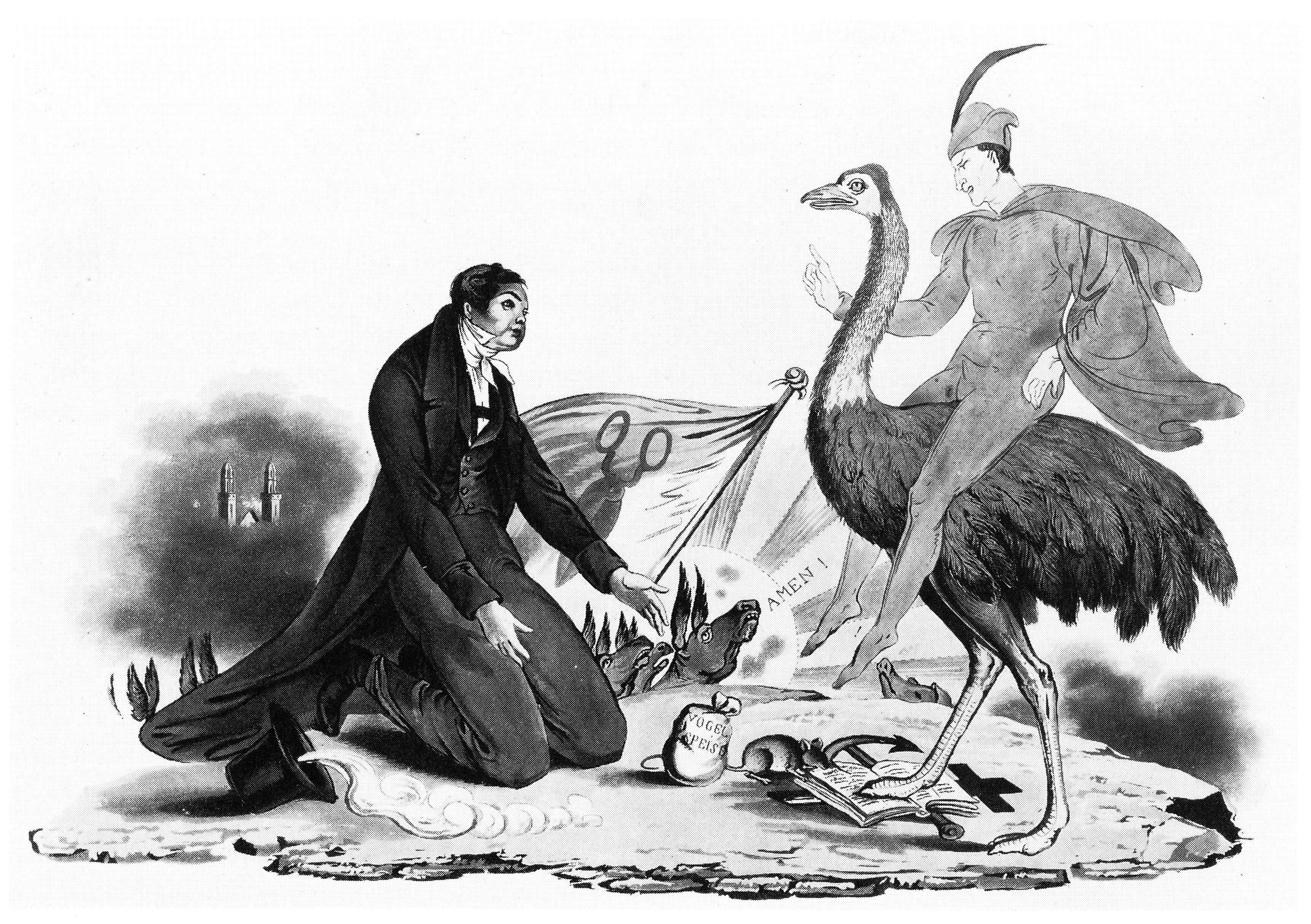 The "Strauss Affair" in Zürich, 1839: In this conservative cartoon, mayor Melchior Hirzel is shown offering money to controversial theologian Strauss (depicted as an ostrich with the devil on his back and stepping on a Bible).